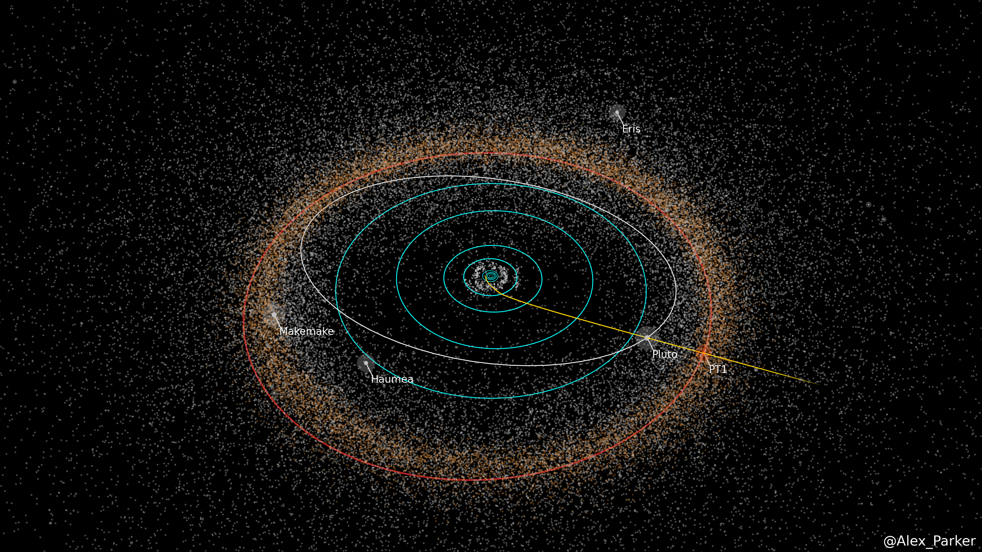 The path of New Horizons spacecraft and the orbits of 2014 MU69 (marked as PT1), Pluto, and Neptune. Positions of Makemake, Haumea, and Eris are also shown.